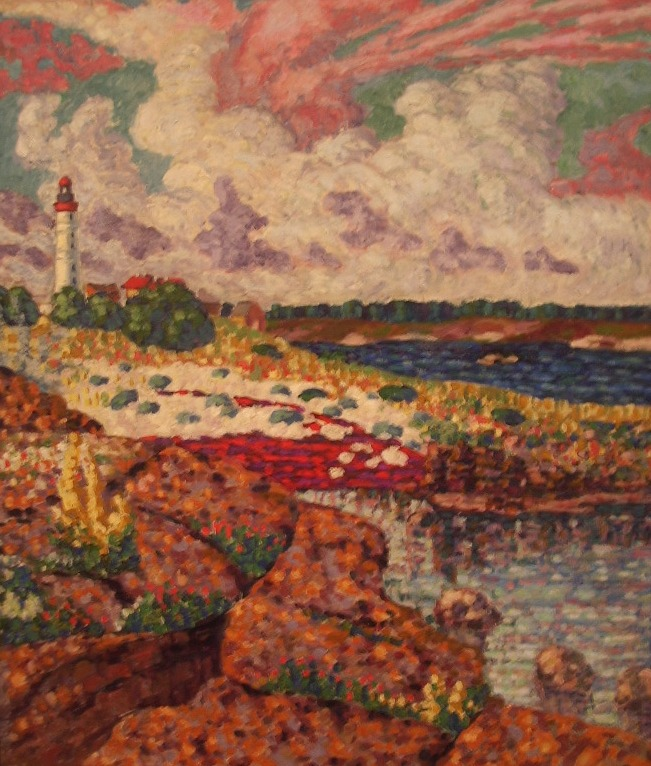 Konrad Mägi "Motive of Vilsandi", 1913-1914, oil